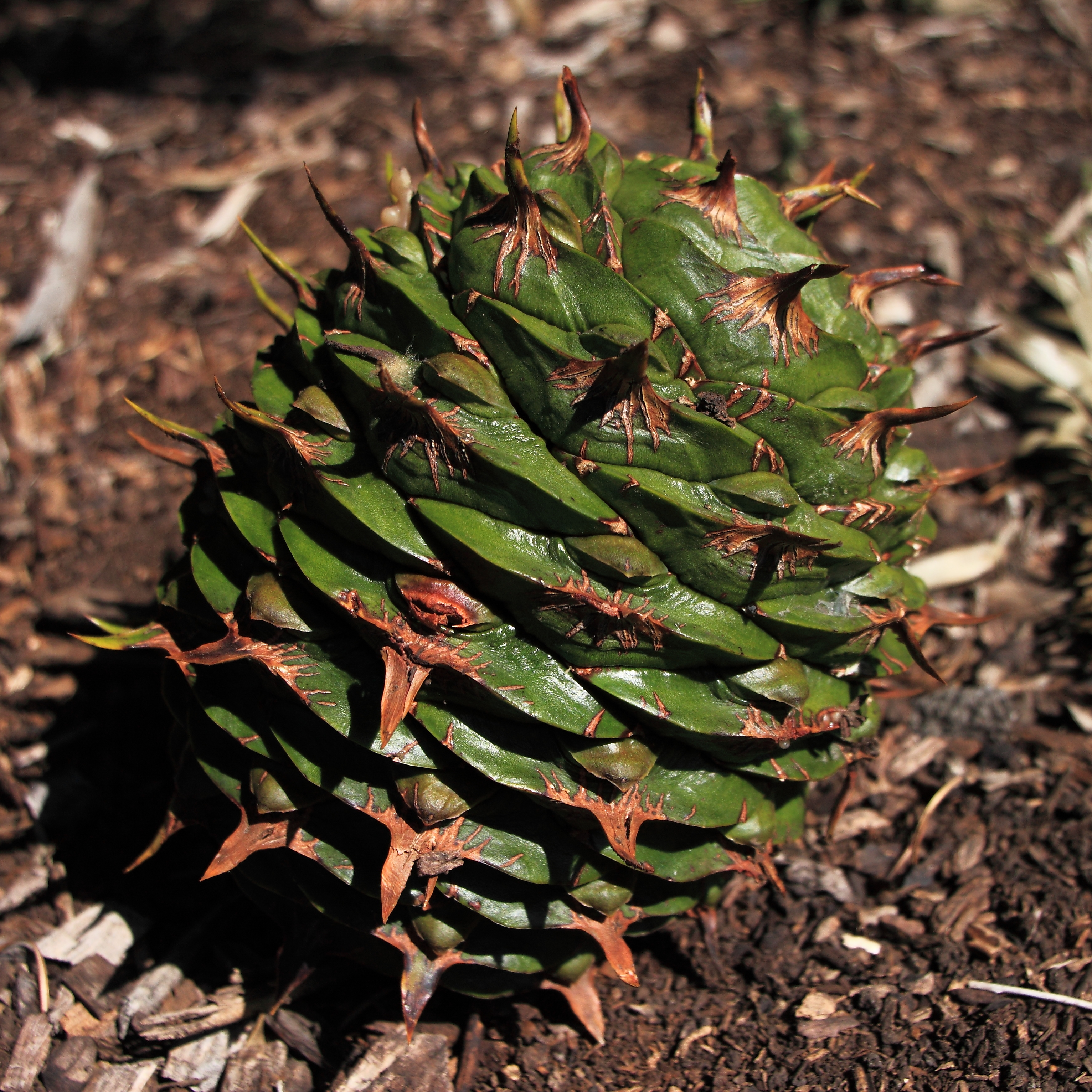 Cone of Araucaria bidwillii tree, Northern California